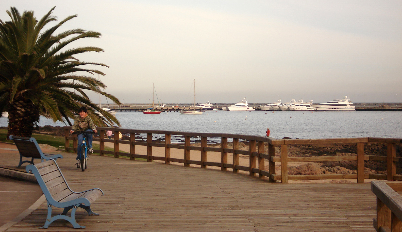 Punta del Este, Uruguay.